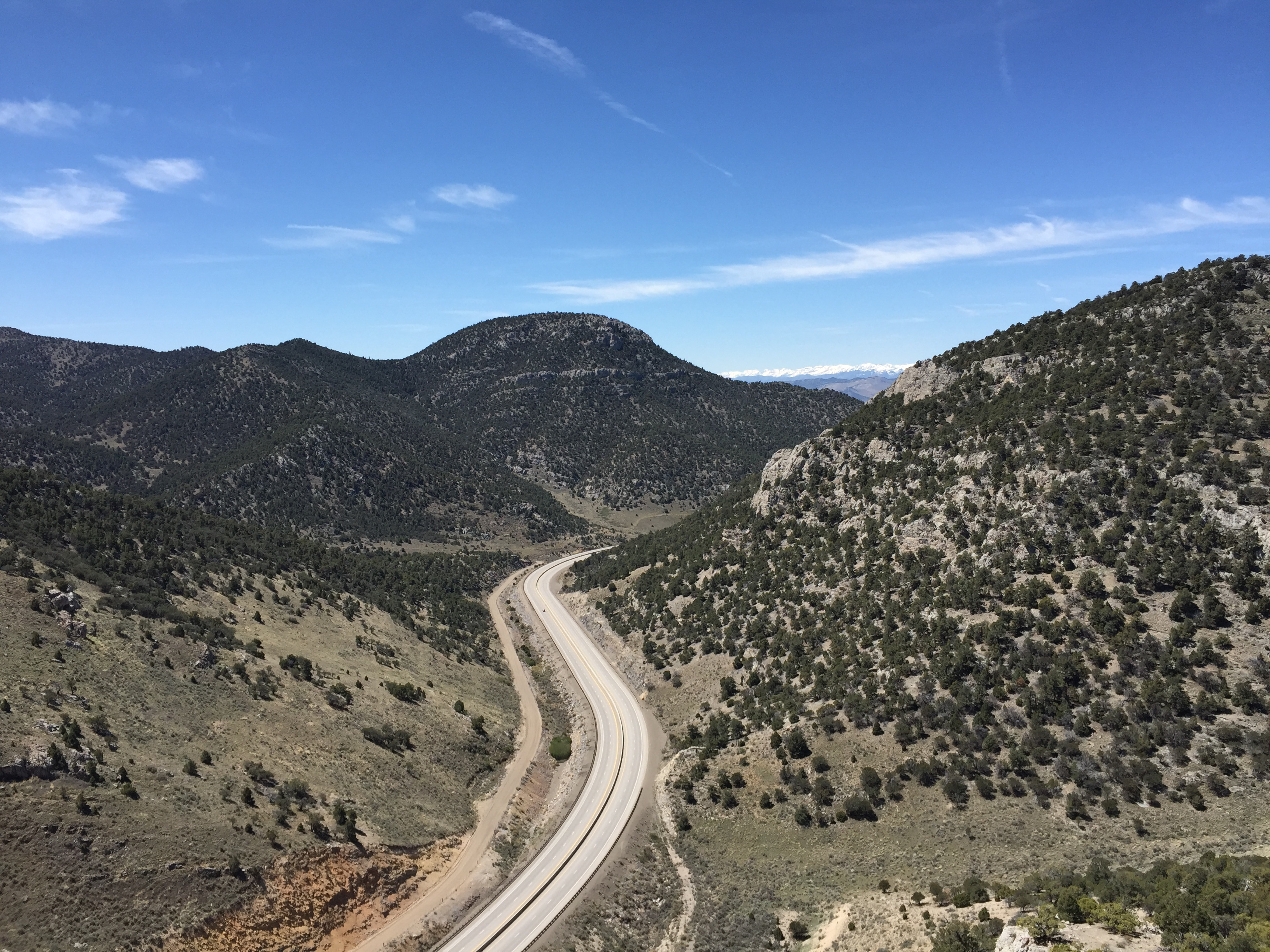 View south-southwest down Maverick Canyon, Nevada and west along Interstate 80 from the cliffs on the east end of the north wall